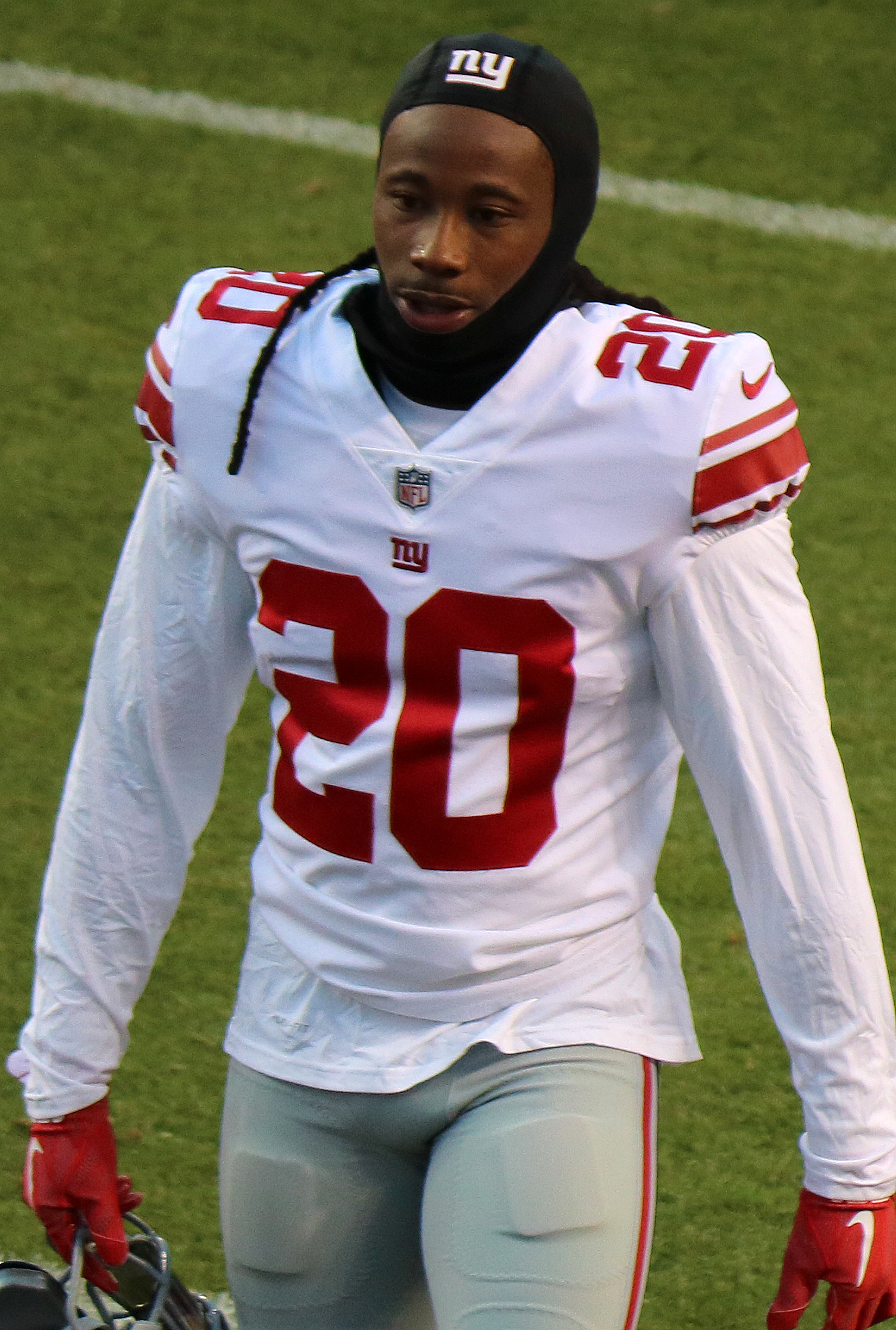 Janoris Jenkins, a player on the National Football League.